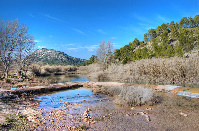 Cabriel River